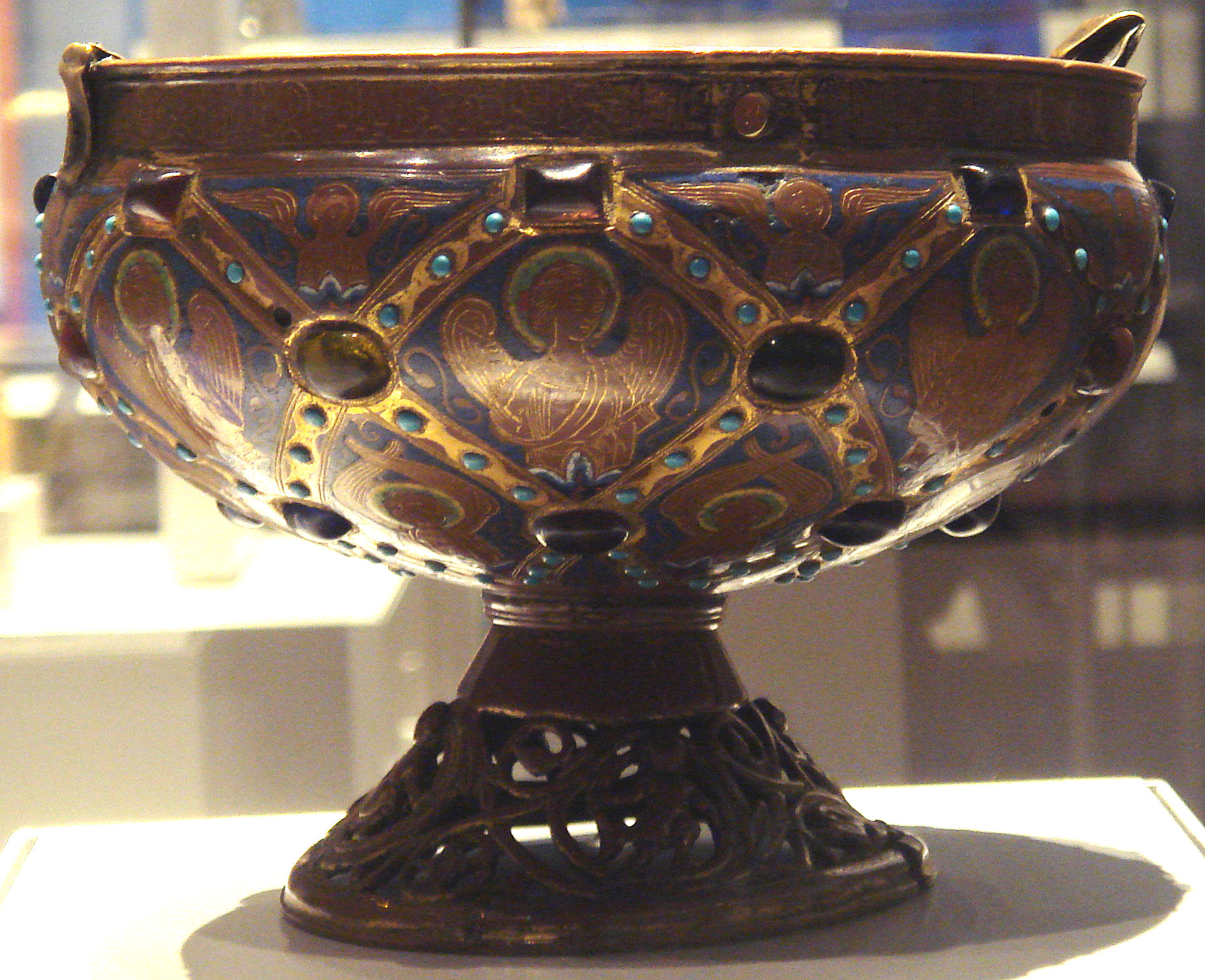 French_ciborium_with_rim_engraved_with_Arabic_script_and_Islamic_inspired_diamond_shaped_pattern_Limoges_France_1215_1230.